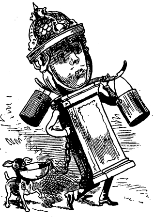 British philanthropist Sir Richard Wallace (1818-1890) caricatured as a Wallace fountain, by Georges Lafosse (1844-1880)